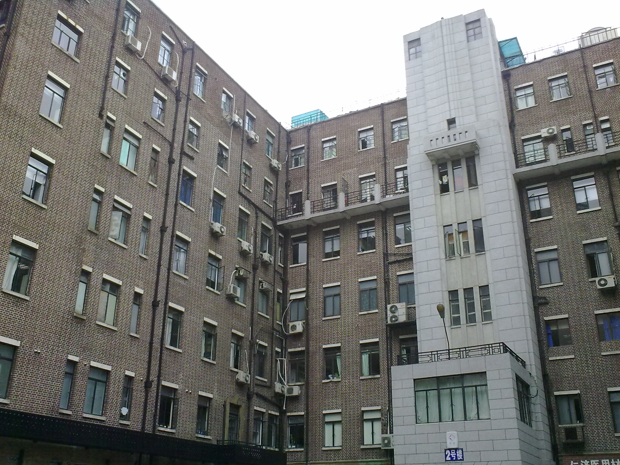 Renji Hospital West Part (original: Renji Hospital located in Middle Shandong Road, Shanghai.)